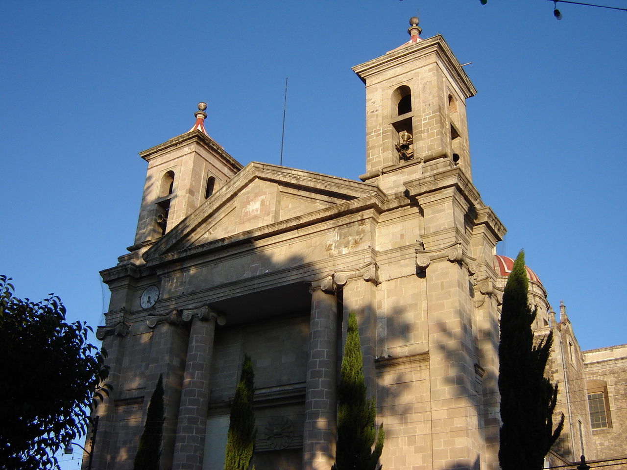 Made by JesusMX. The picture shows the "Catedral de Tulancingo" ("Cathedral of Tulancingo").